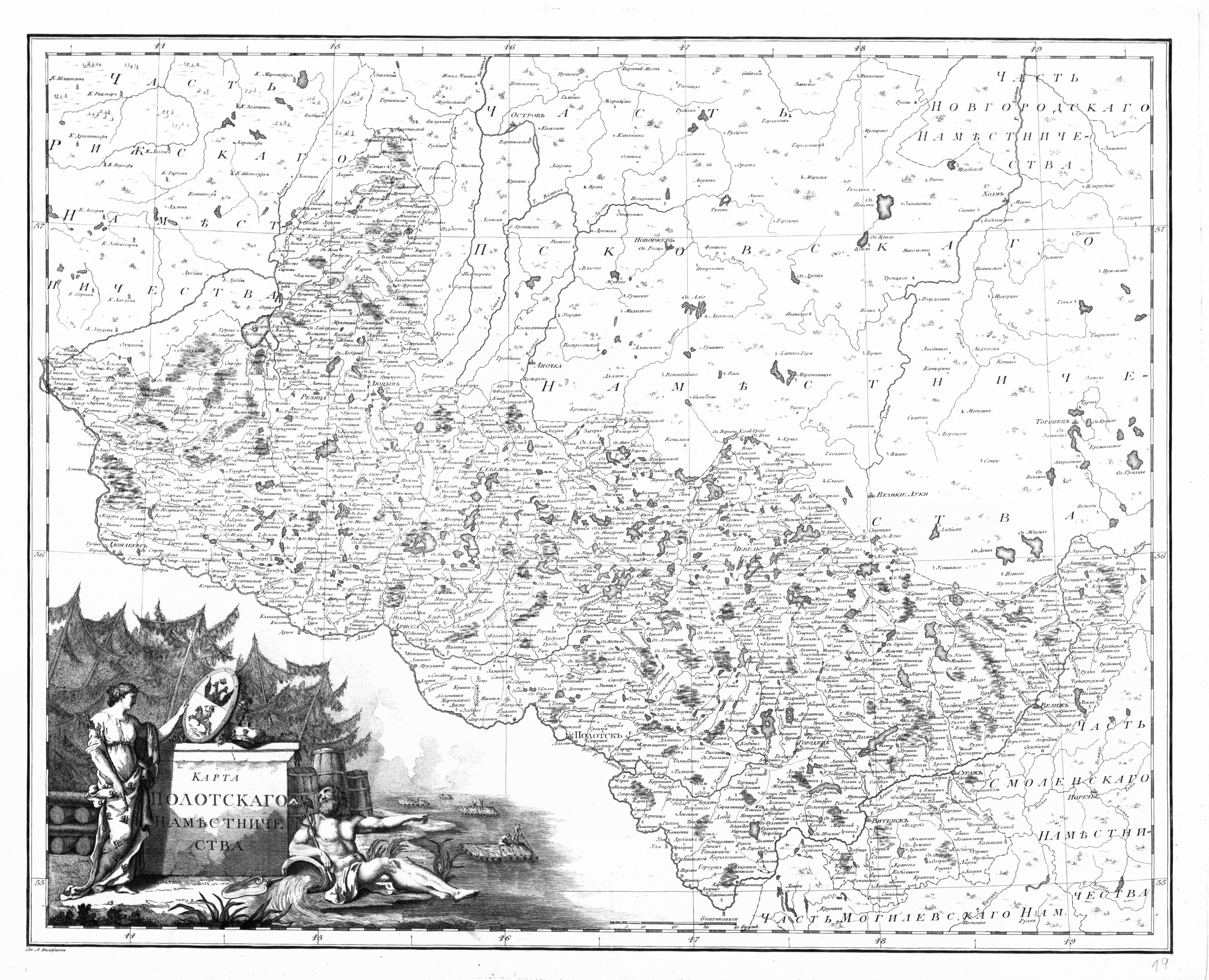 Map of Polotsk Namestnichestvo (sheet 19) from official Atlas of the Russian Empire (1792).